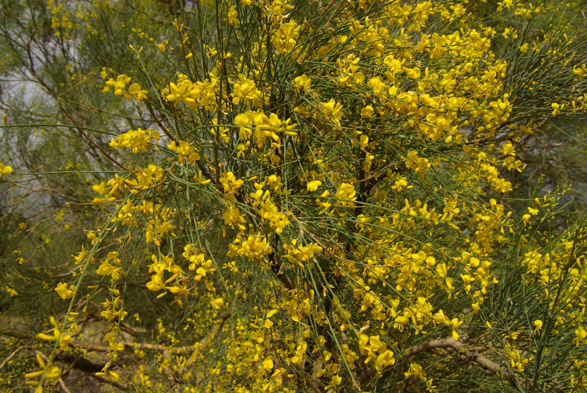 Flowers of Etna Broom geowing on Mount Etna